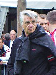 Portrait photo of Aime Jacquet, formatted for article use